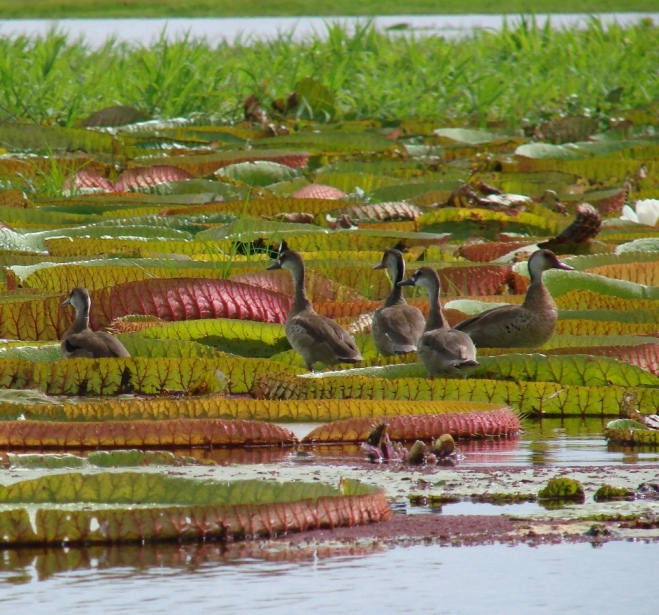 Amazonetta_brasiliensis - Brazilian Teal